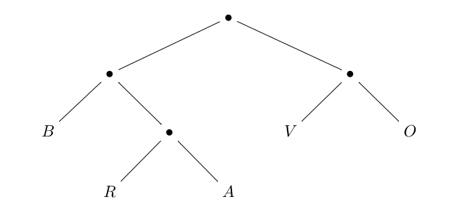 Binary tree holding labels B, R, A, V, O